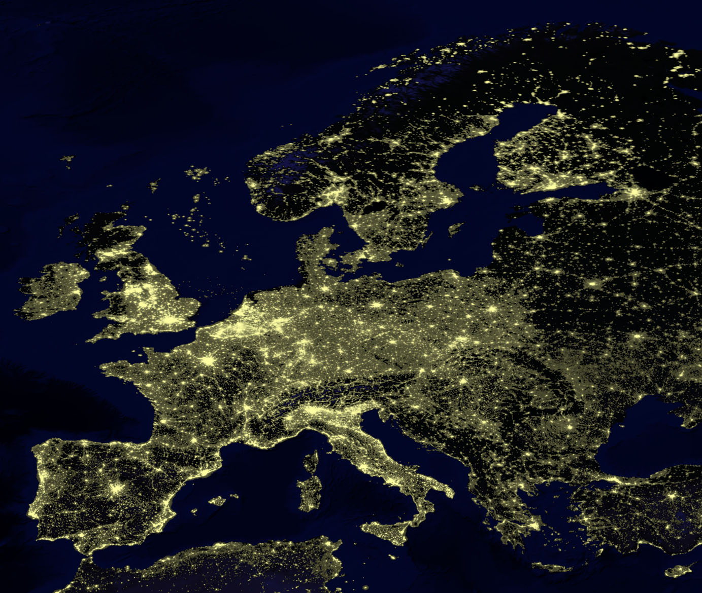 Light pollution in Europe, 2002.